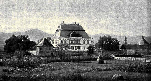 the mansion of the Haller family in Coplean/Kapjon